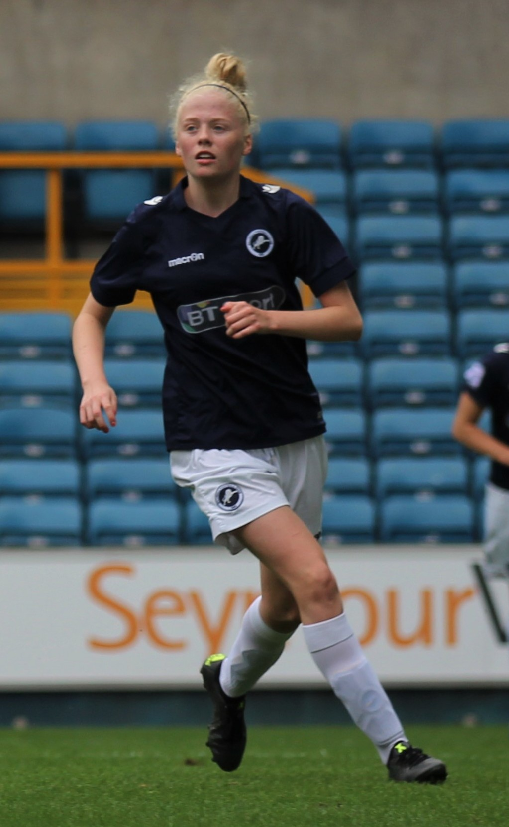 Dan Carter, Megan McKeag, Chloe Kelly, Grace Fisk